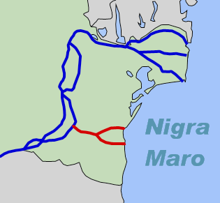 Map of the Danube-Black Sea Canal, labelled in Esperanto